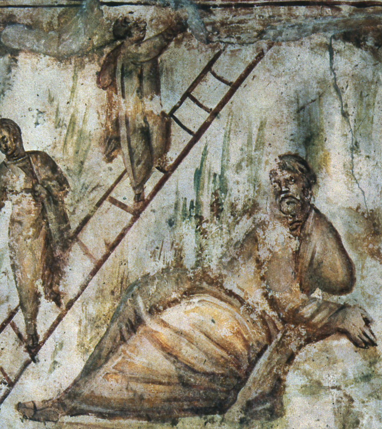 Catacomb of the Via Latina. Jacob's ladder / Jacob's dream at Bethel.